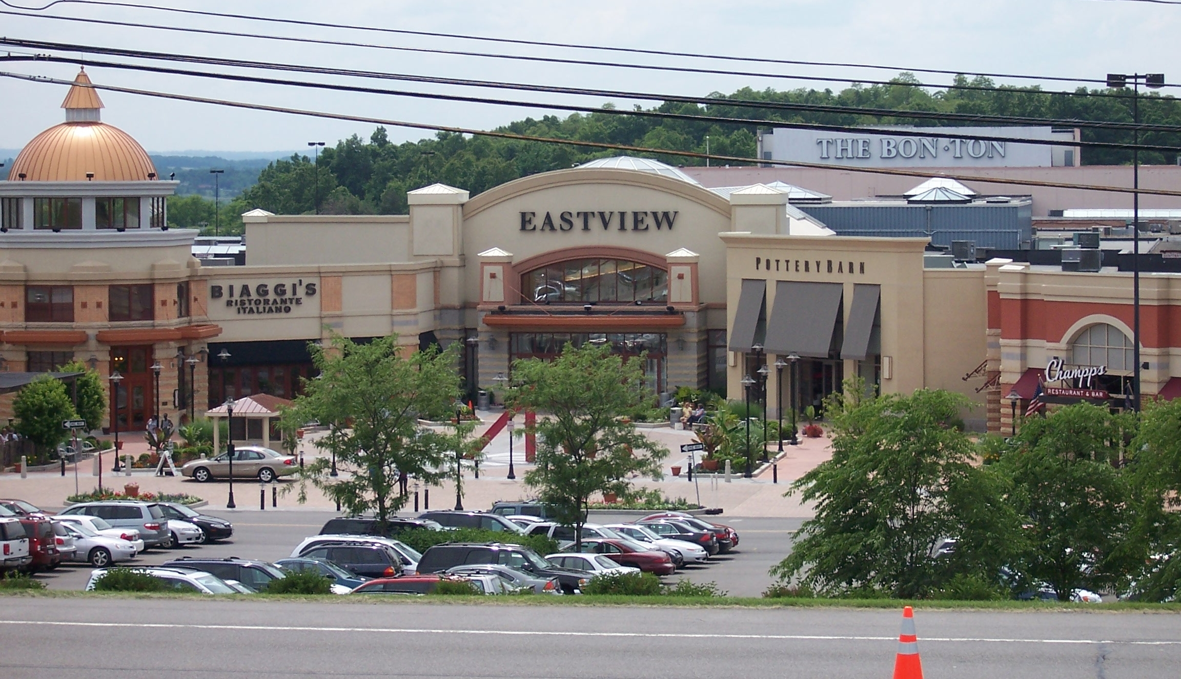 Eastview Mall in Victor, New York, in the Rochester, New York area. This image shows the newest section of the mall, with valet parking available in front. The road at the very bottom edge of the image is State Route 96.